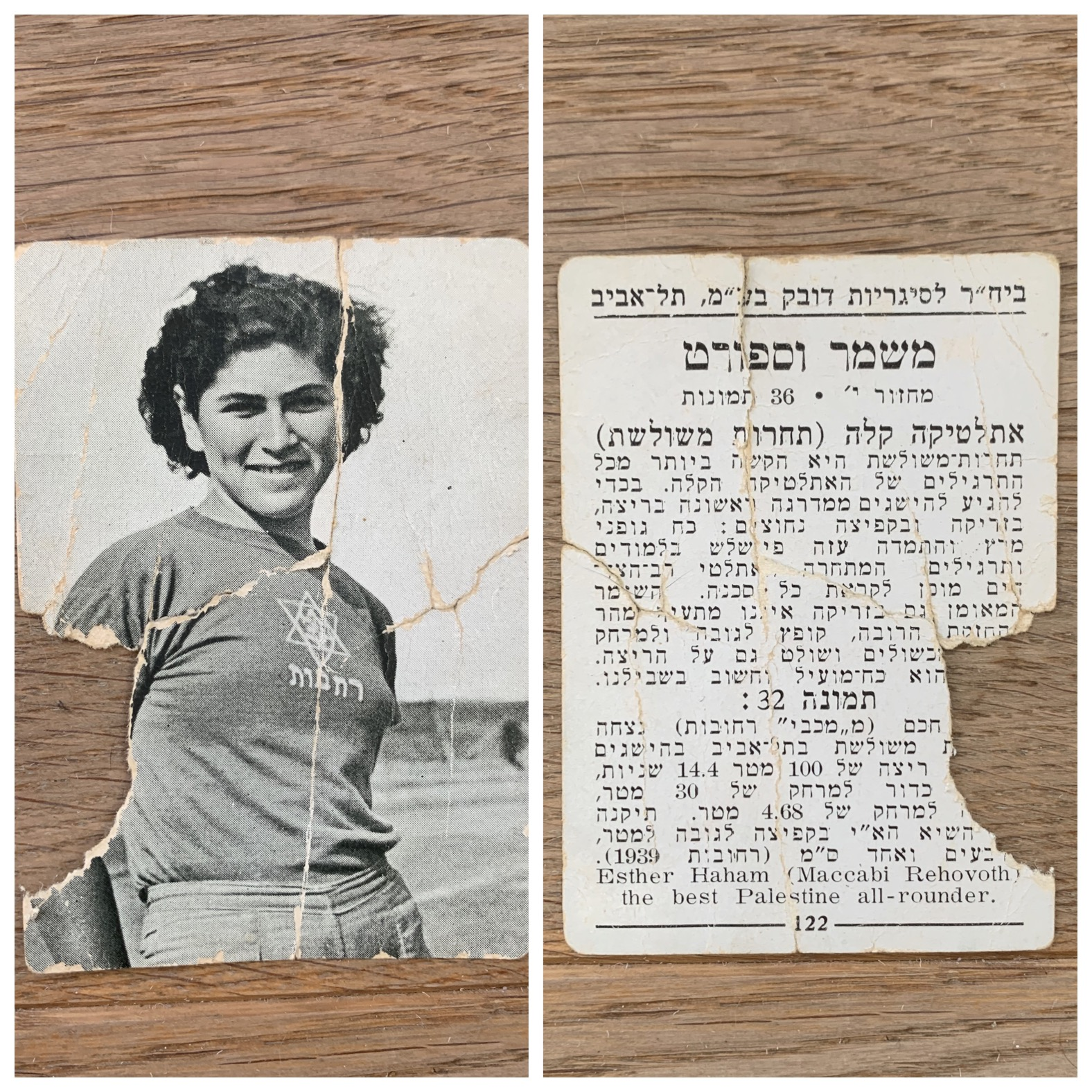 Original card number 32 issued by Dubek in honor of Esther Haham, 1940